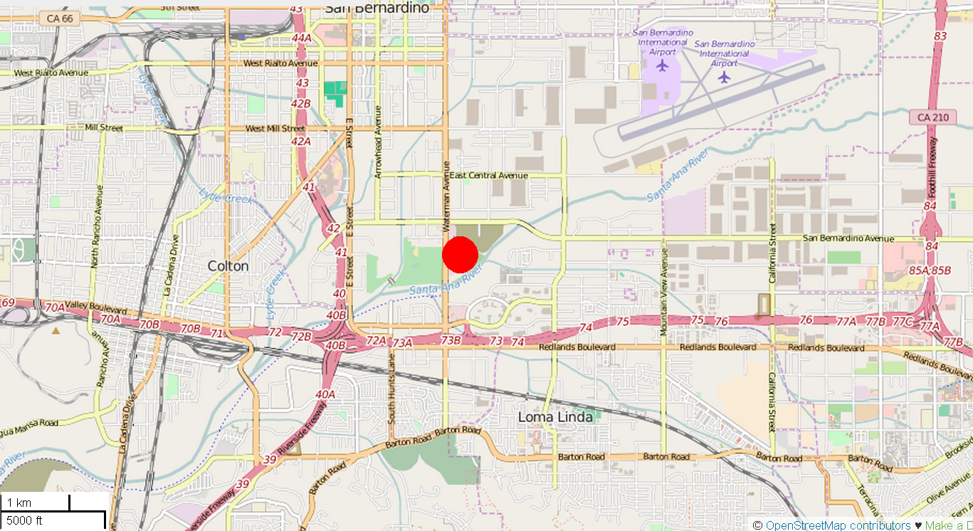 2015 San Bernardino shooting location map